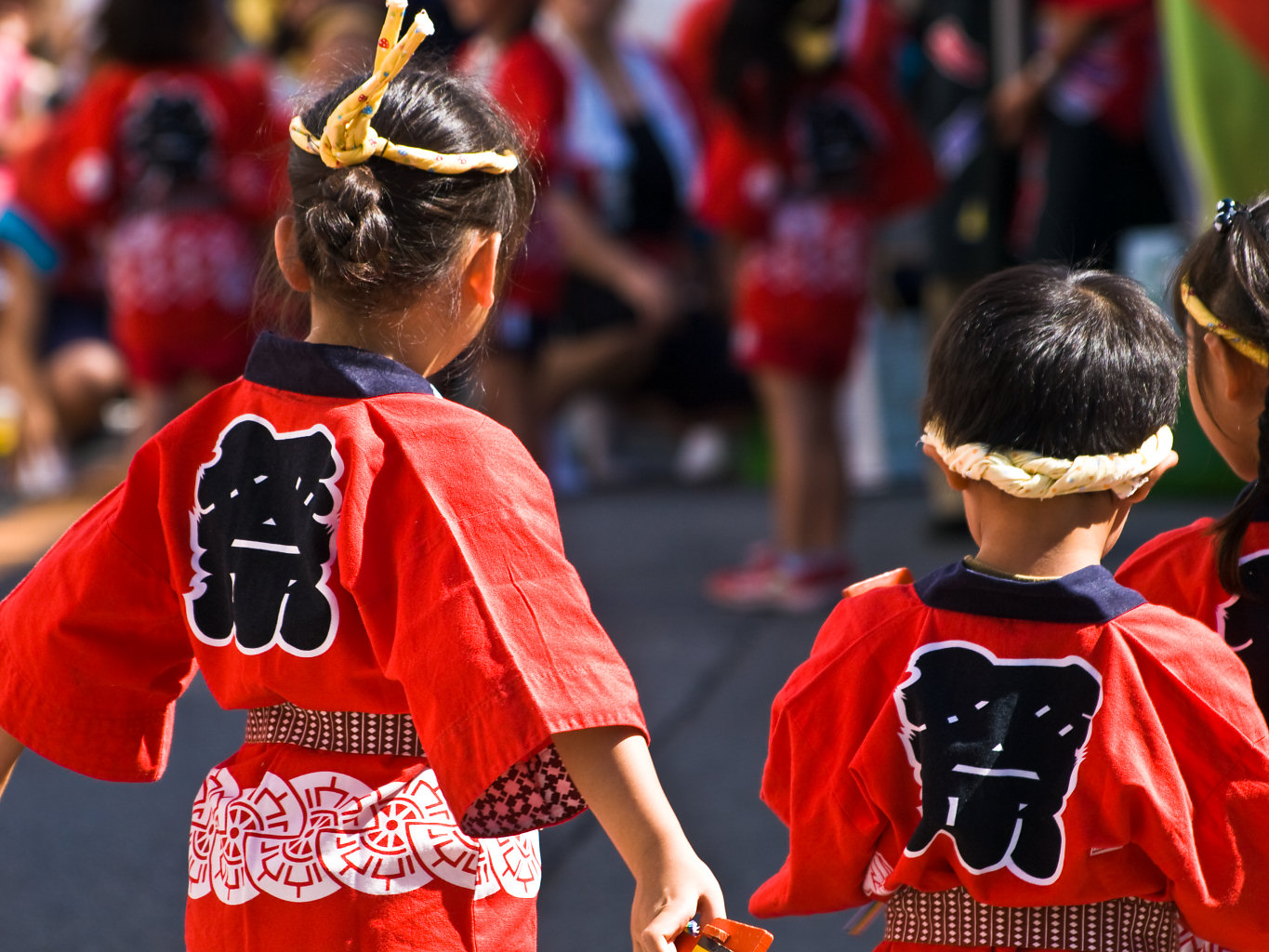 Yosakoi Festival 2009 in Sagamihara